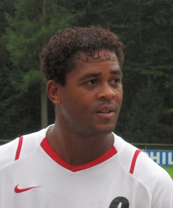 Kluivert at the trainingspitch at PSV at 7 September 2006. Photo made by GHoeberX, owner/webmaster/administrator of [